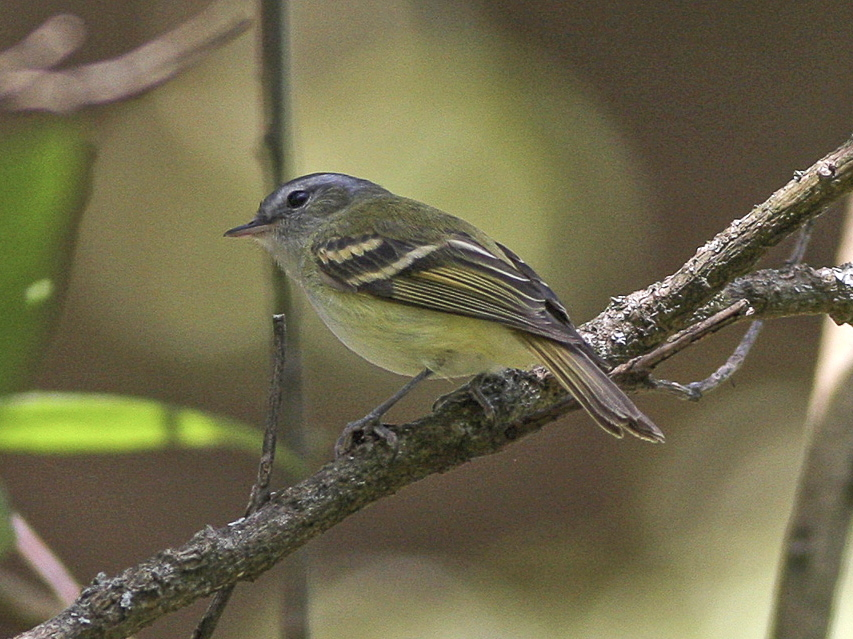 Buff-banded Tyrannulet at Tucumán - Argentina